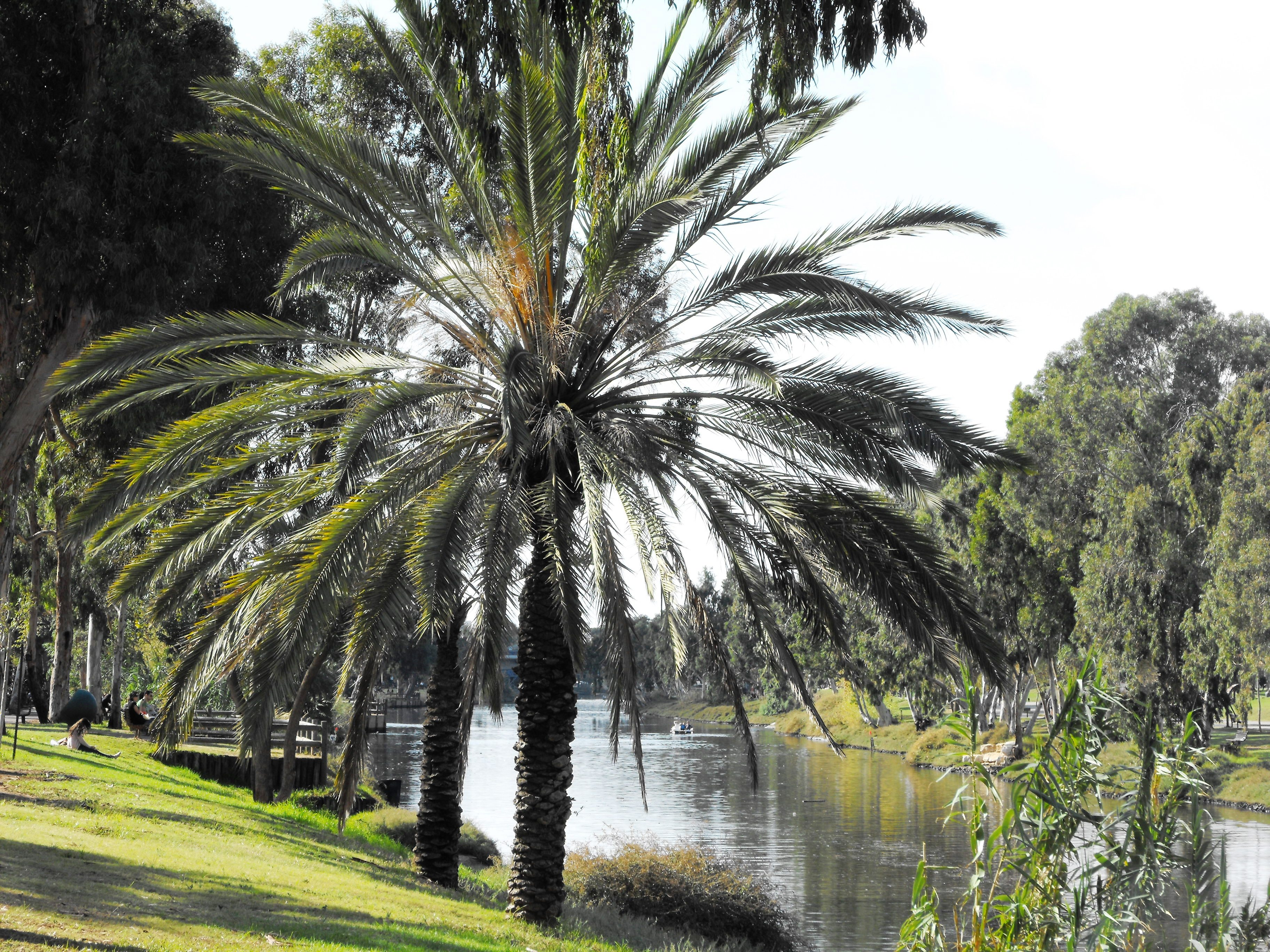 Tel-Aviv - Yarkon park, Geography of Israel